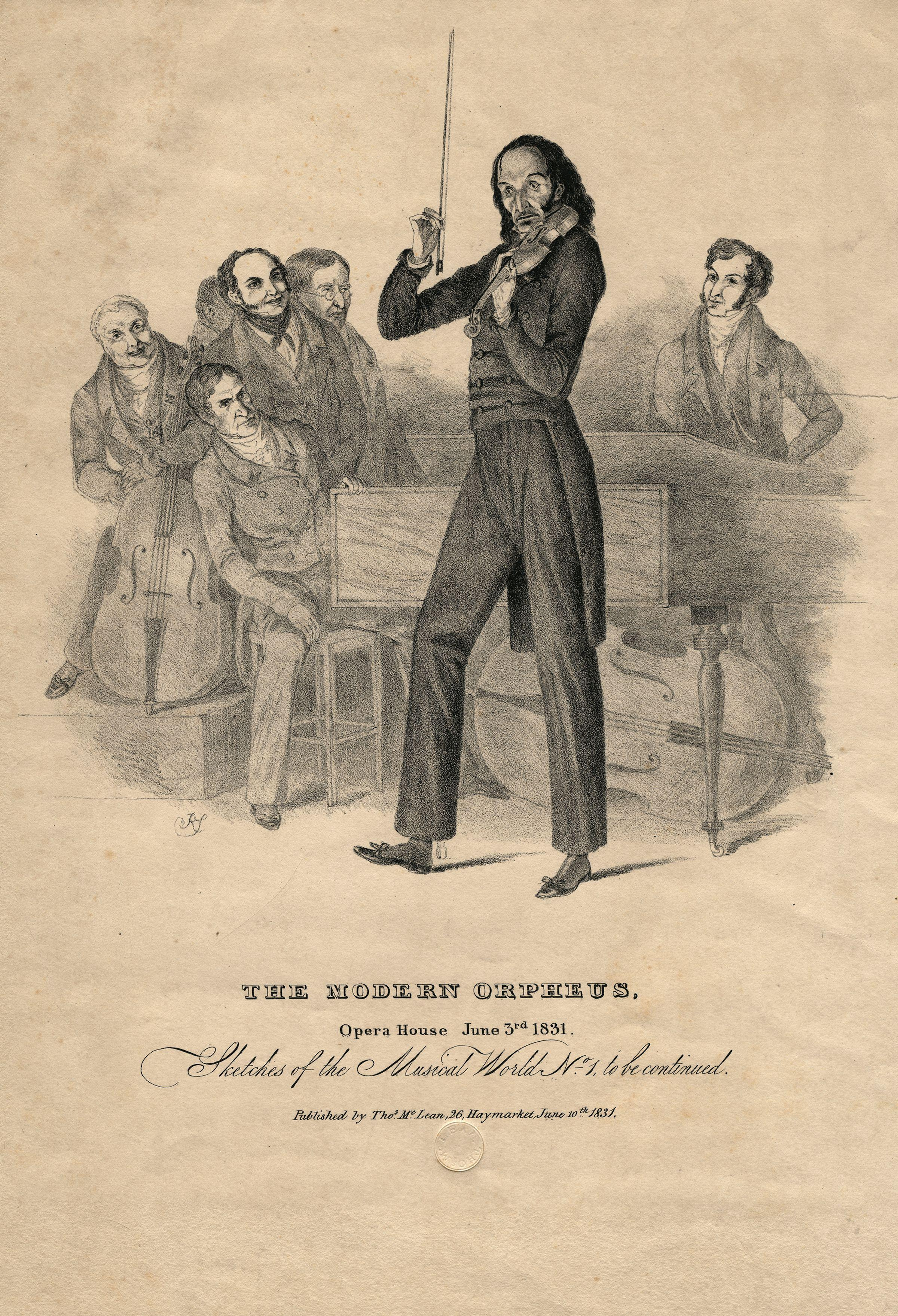 Nicolo Paganini, by Richard James Lane (died 1872), published 1831. All images in this batch have been confirmed as author died before 1939 according to the official death date listed by the NPG.